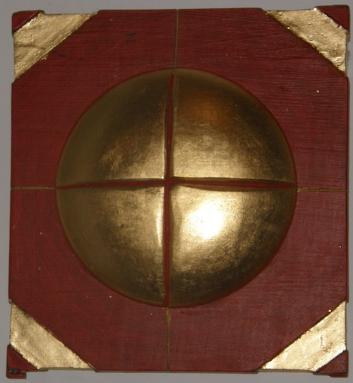 Sculptură în lemn (Silviu Oravitzan)